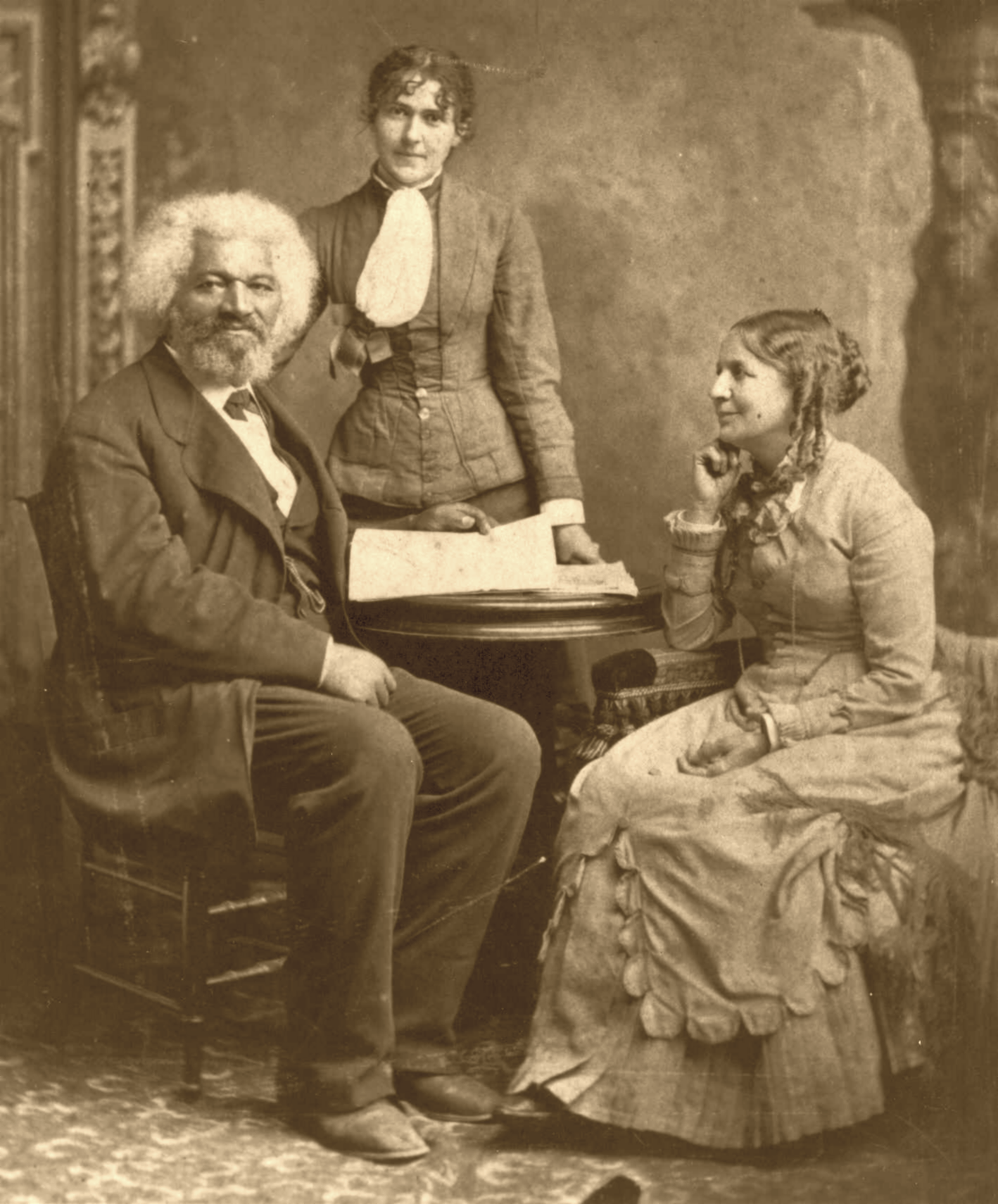 Frederick Douglass with Helen Pitts Douglass (seated, right) and her sister Eva Pitts (standing, center).